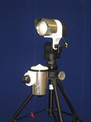 Passive millimeter wave screening device.